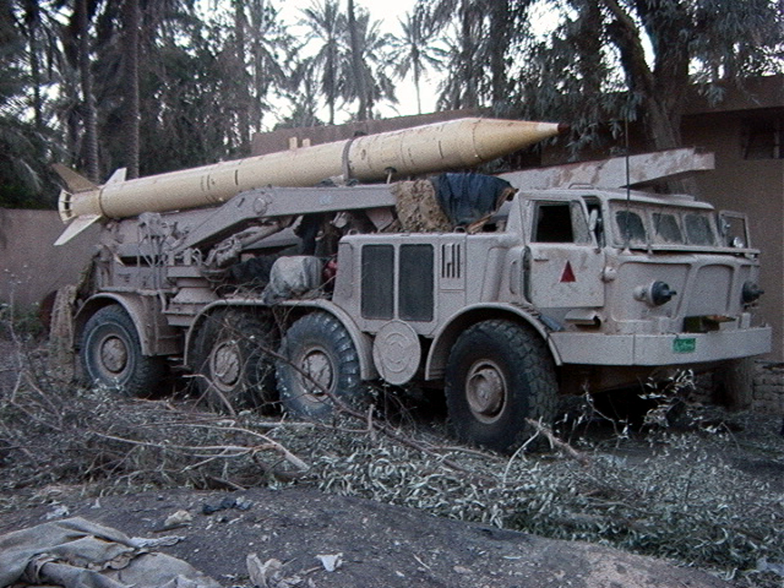 An Iraqi ZIL-135 FROG-7 short-range battlefield support artillery rocket with (8X8) Wheeled Transporter Erector Launcher (TEL), captured by US Marine Corps (USMC) Marines, during Operation IRAQI FREEDOM.